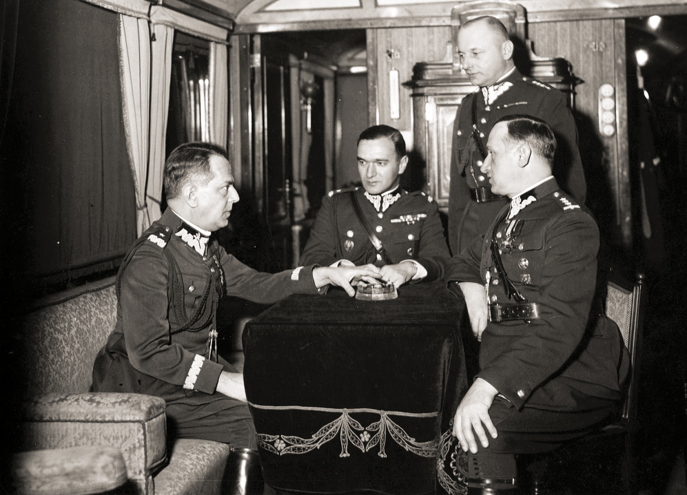 From the left, General Janusz Gąsiorowski, Major Jan Axentowicz, rtm. Konstanty Horoch, Col. Jerzy Englisch in the salon car during the general's visit to the Baltic States in 1935